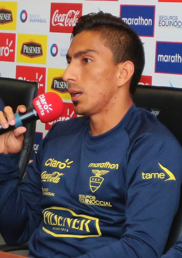 Ángel Mena